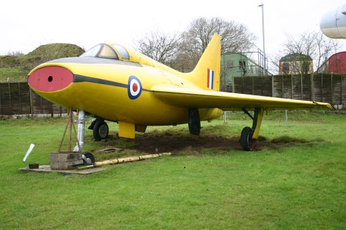 Boulton Paul P.111 AVT 935 on display at the Midland Air Museum near Coventry.